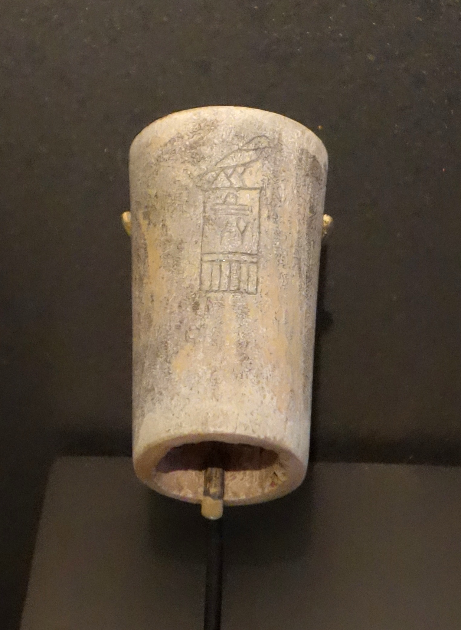 Exhibit in the Brooklyn Museum - Brooklyn, New York, USA. This artwork is in the public domain because the artist died more than 70 years ago.